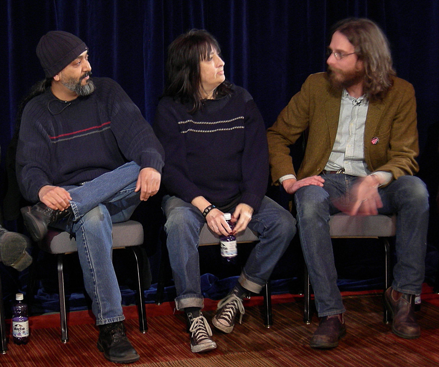 Panel discussion as part of the exhibit "Sound & Vision: Artists Tell Their Stories" at Experience Music Project, Seattle, Washington. From left to right: Kim Thayil of Soundgarden Kim Warnick of The Fastbacks Steve Turner of Mudhoney Cropped and sharpened.